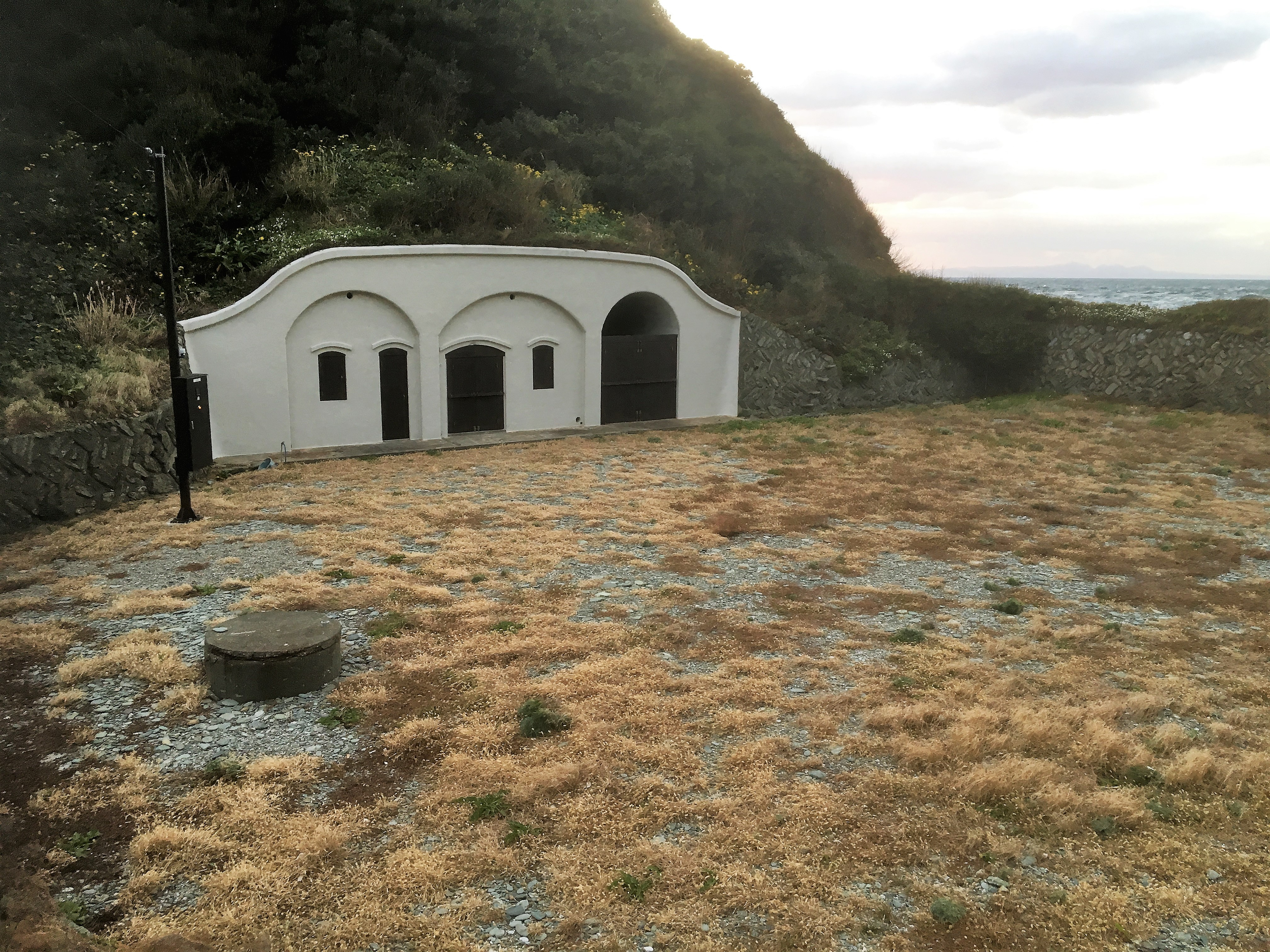 ＣOntrol center, Sada-Cape battery, GEIYO fortress, Ehime-pref, JAPAN